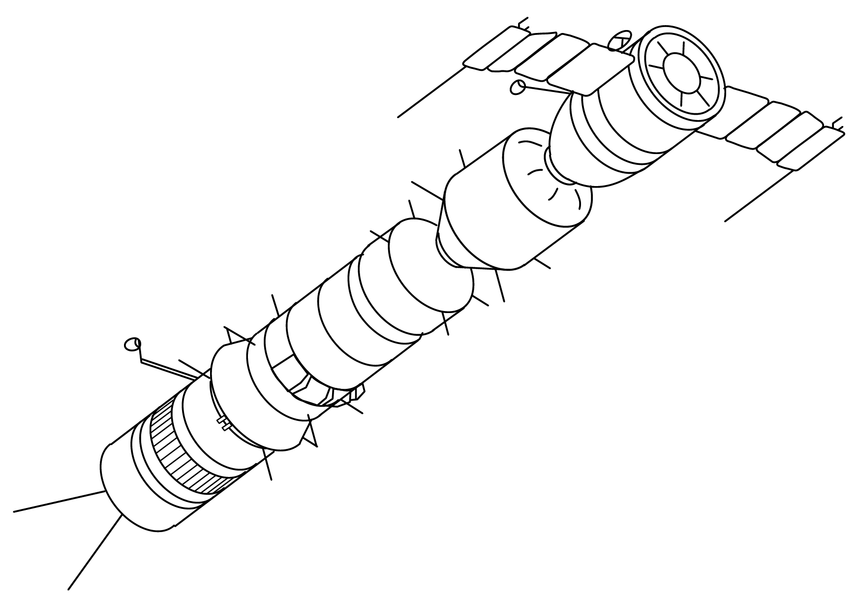 Soyuz A-B-C circumlunar concept. The drawing shows Soyuz-A (right), Soyuz-B booster, and Soyuz-C tanker with twin whip antennae (left).